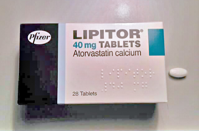 A package and pill of atorvastatin 40mg (Lipitor).